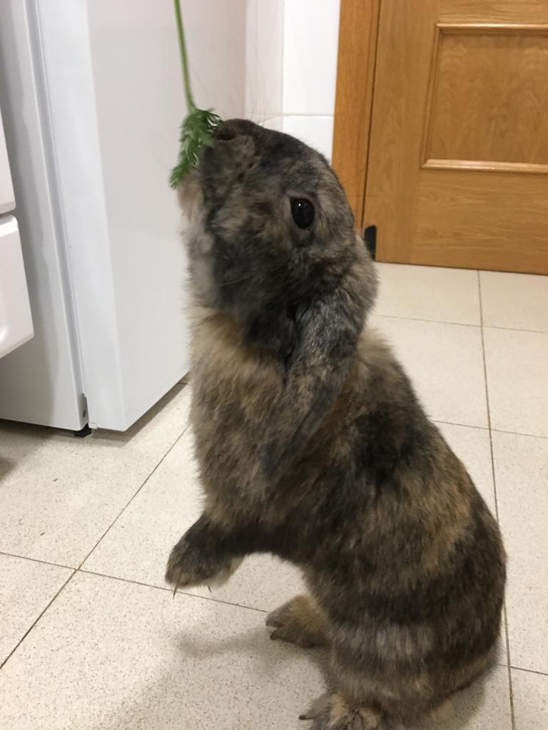 The rabbit stands to be feed.